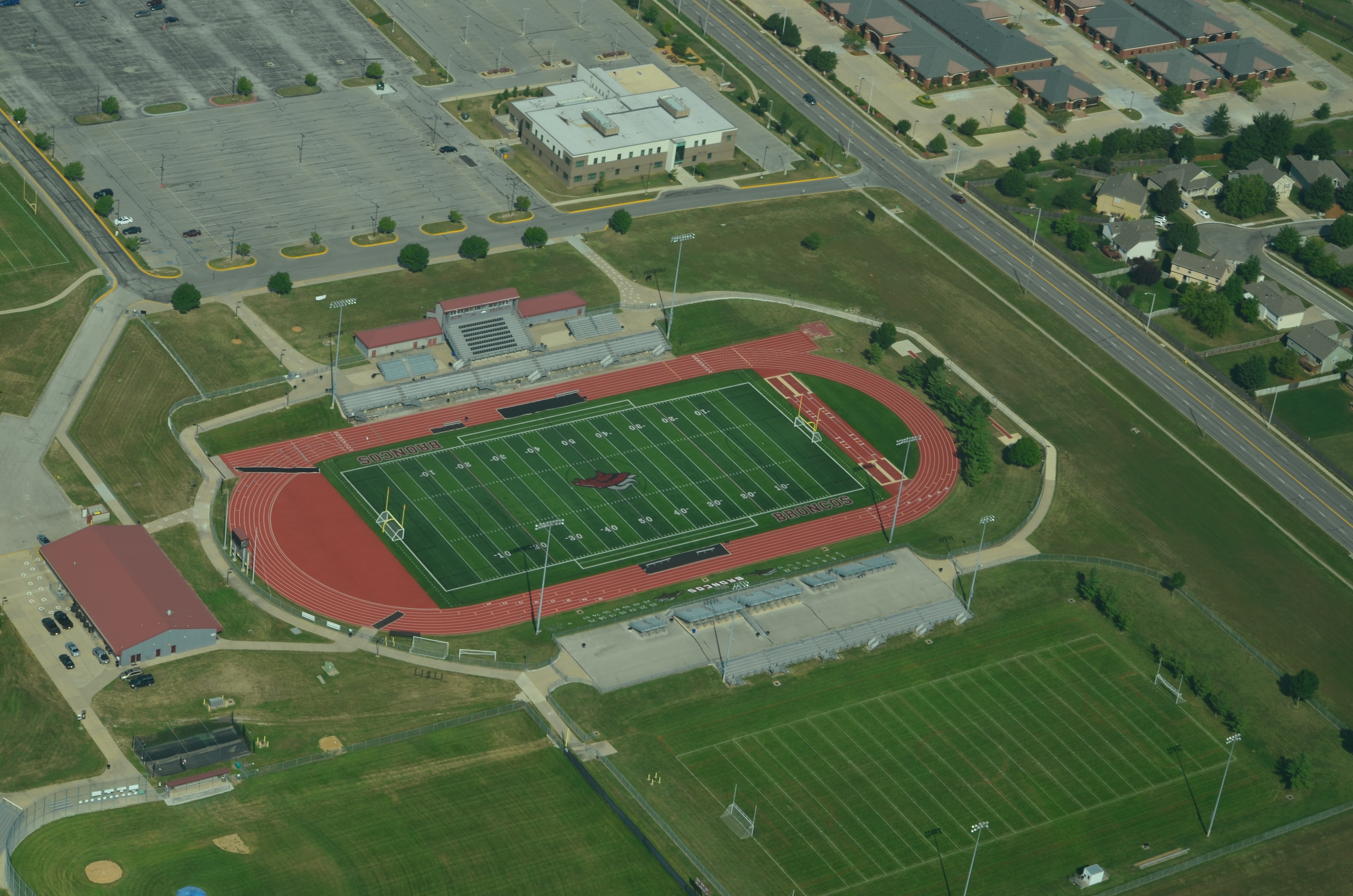 North Hgh School Stadium - Lees Summit, Missouri